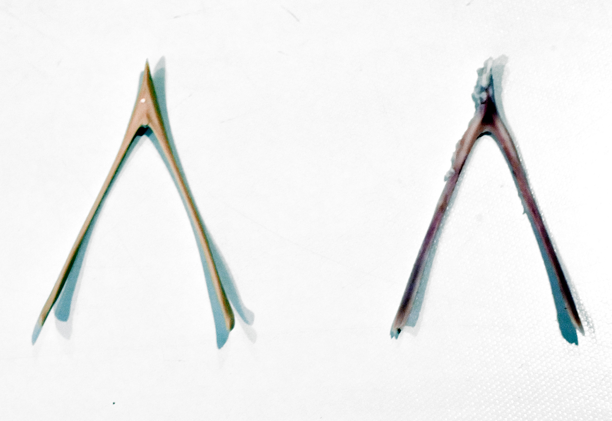 Our Thanksgiving consisted of a real turkey with a real wishbone and four synthetic wishbones. Here's your side-by-side comparison. Pretty convincing.